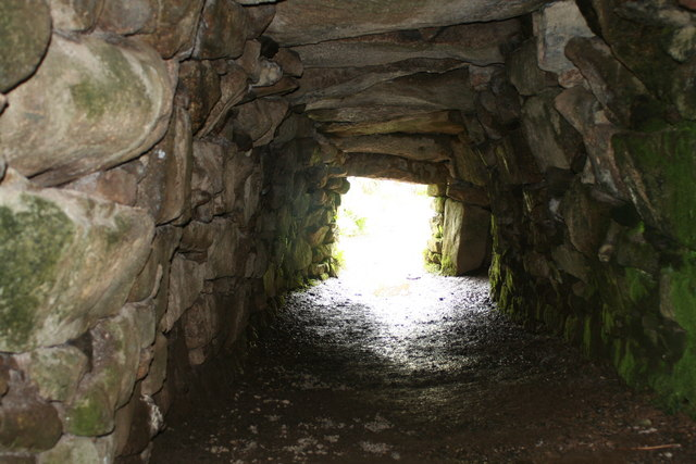 Carn Euny fogou The original purpose of fogous, or underground chambers, which are found in West Cornwall is unknown. This one at Carn Euny is a particularly fine example.